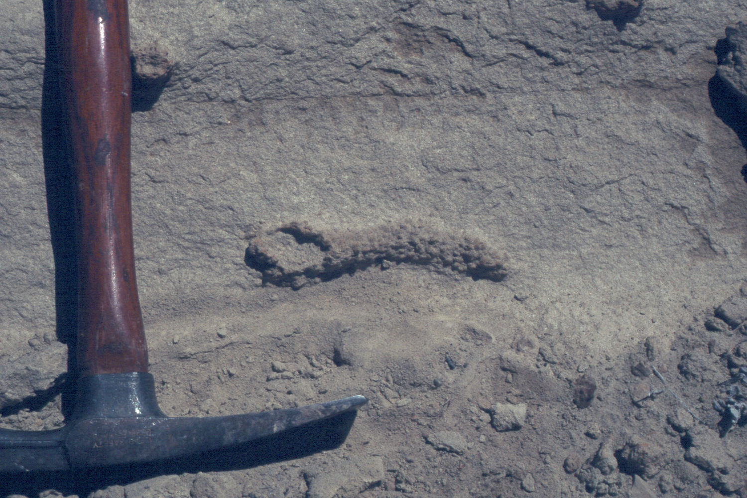 Ichnofossil called Ophiomorpha in the sandstone of the Parkman Member of the Clagget Formation in Elk Basin on the Montana/Wyoming border. Taken June 1997. Hammer for scale.